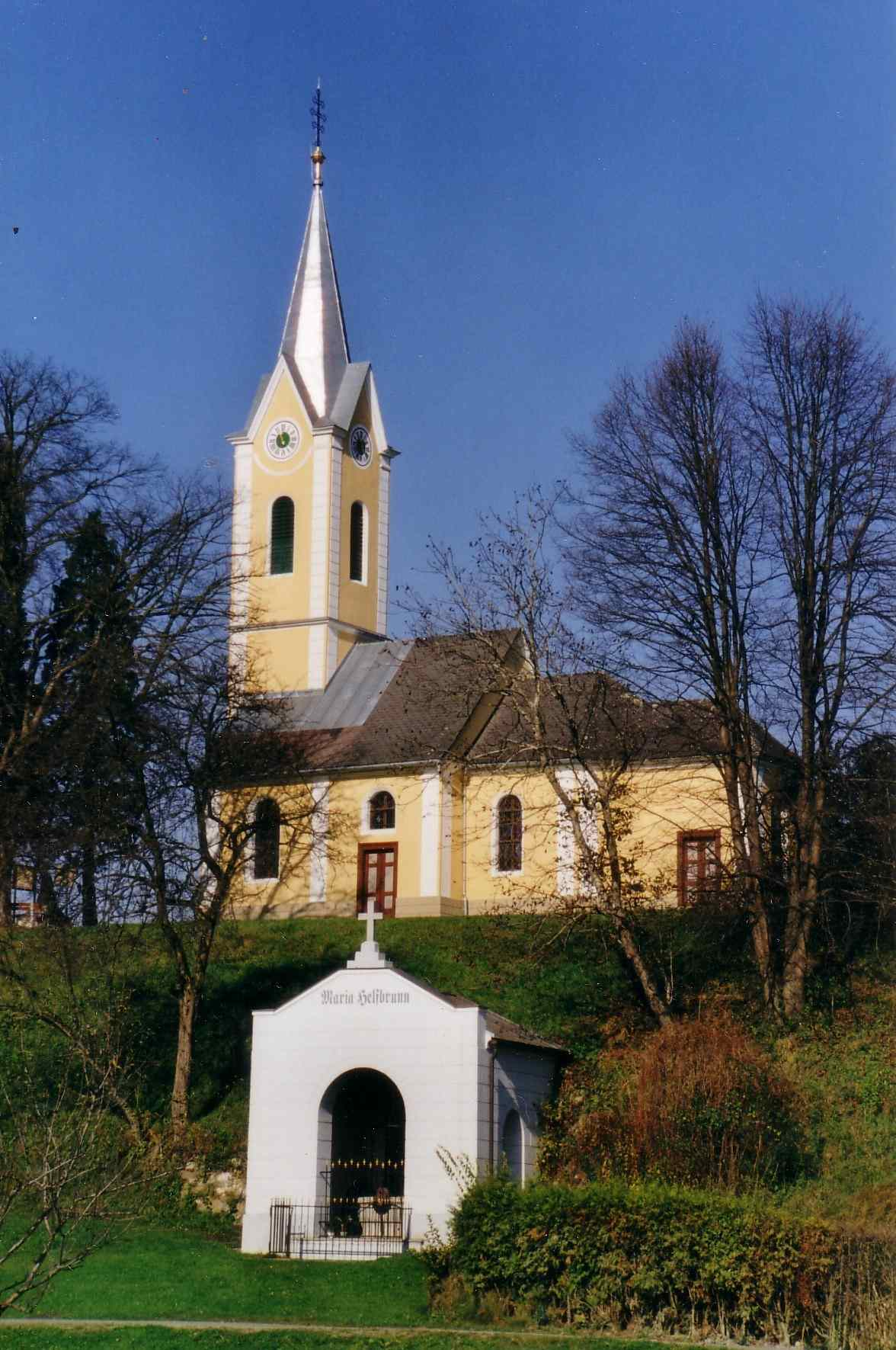 Maria Helfbrunn in Styria (Austria)